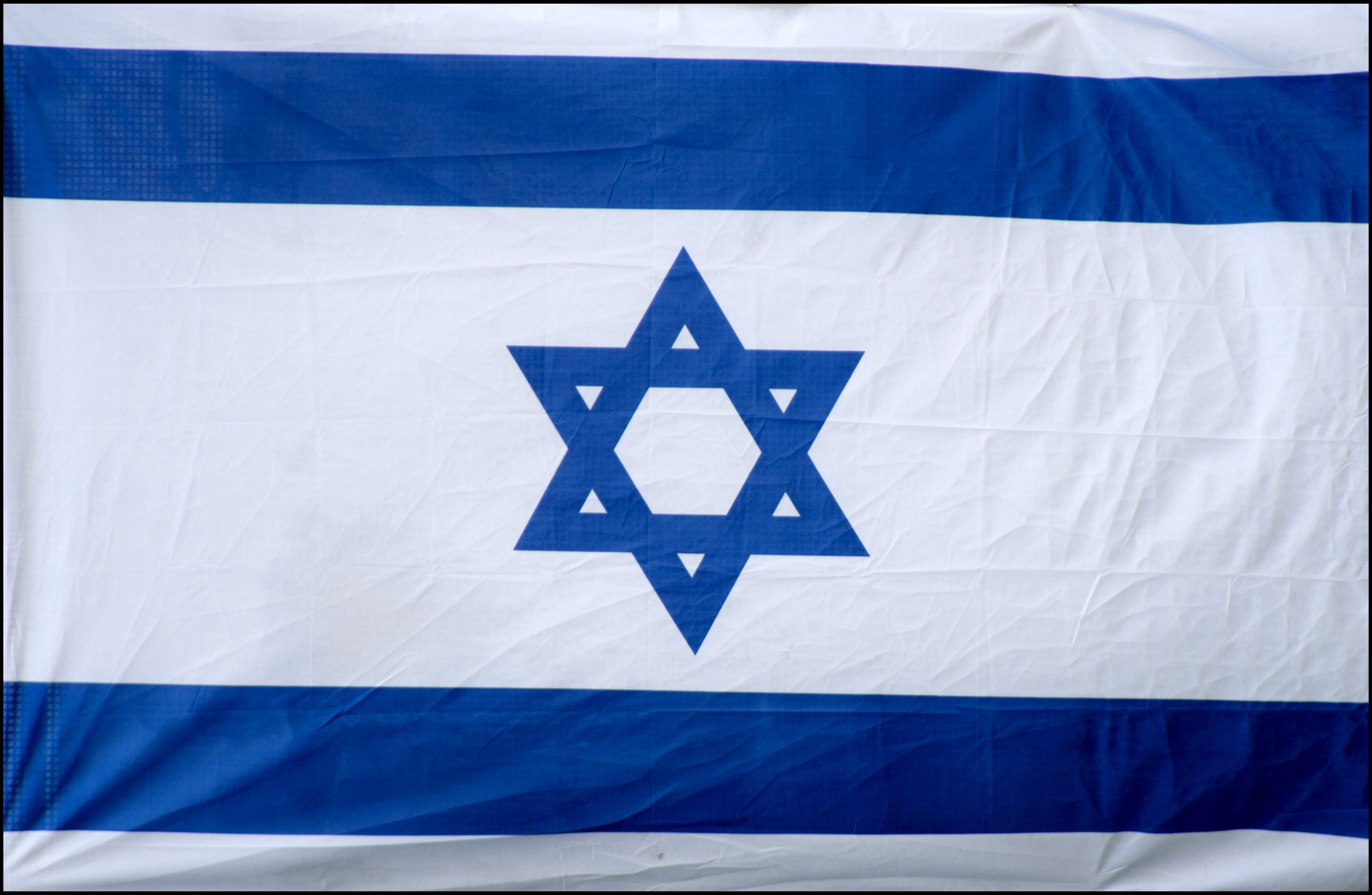 Flag of Israel (Israel)